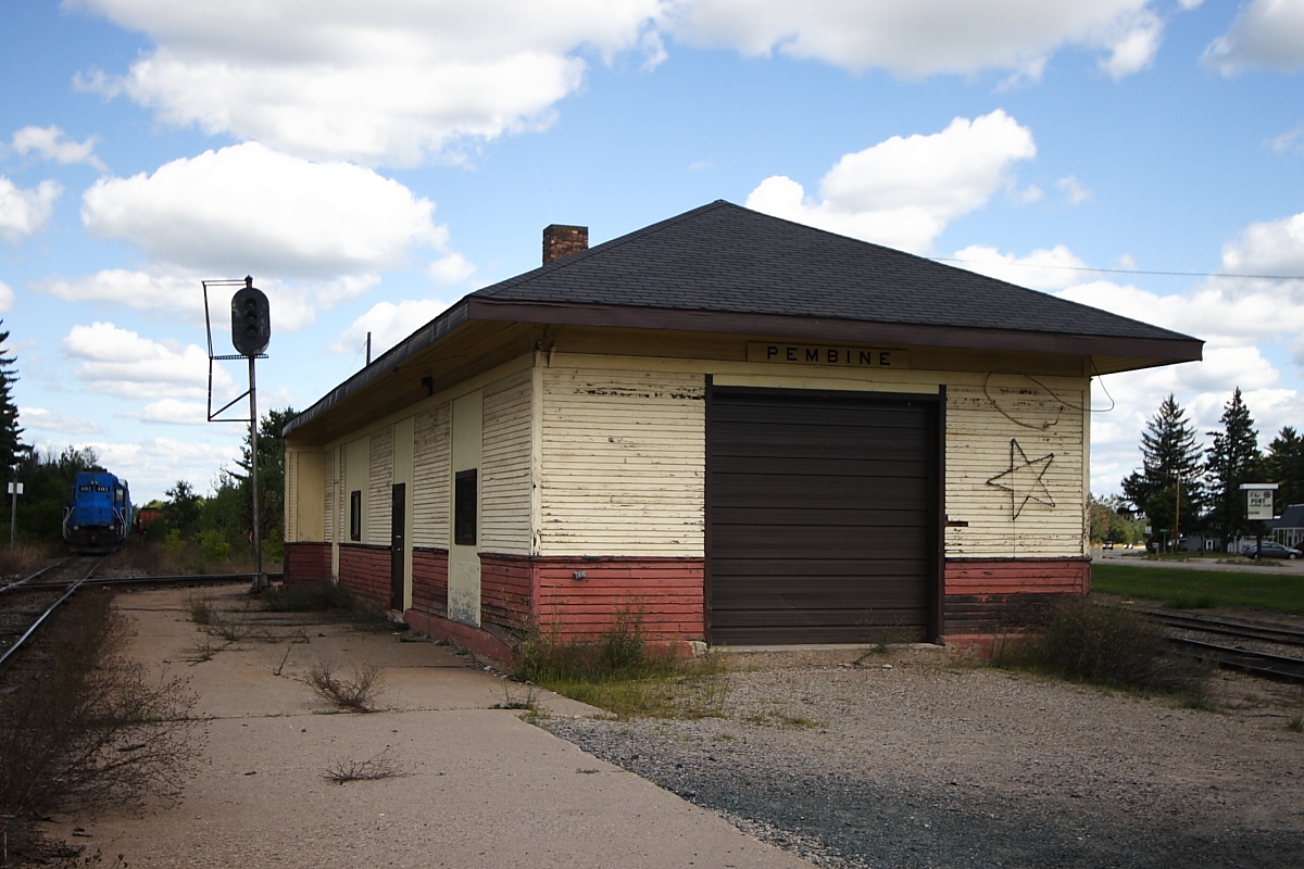 Train Station, Pembine, Wisconsin, built by the Soo Line in 1887 and destroyed by arsonists on June 17, 2019.